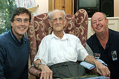 Bruce Cooper, Jim Crone, and Pete Jackson. November 2006 interview of Dr. Cooper about Operation Tracer.